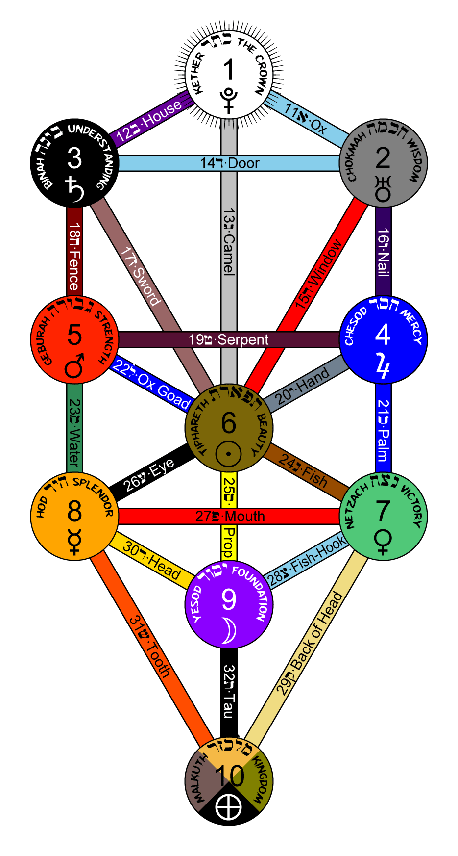 The Kabbalistic Tree of Life - Using The Queen Scale of Colour of the Golden Dawn tradition (Reference: Crowley's LIBER 777)